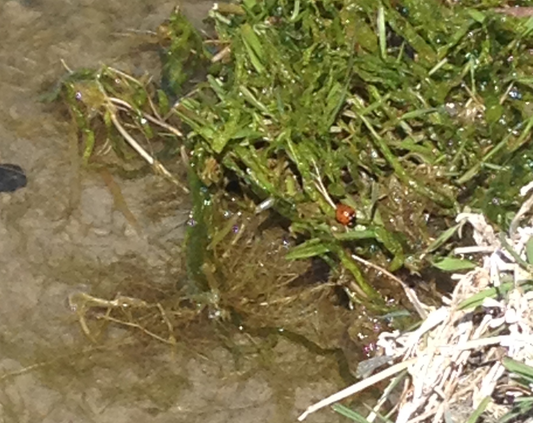 A picture taken of a ladybug at Weed Lake in March 2015